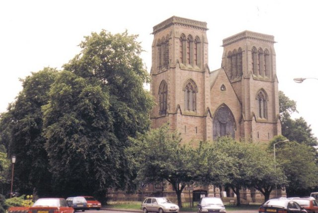 Inverness: Cathedral of St. Andrew